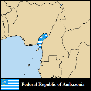 world comuity live greatly